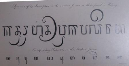 Specimen of an Inscription in the ancient Javan or Kawi Script found in Malang